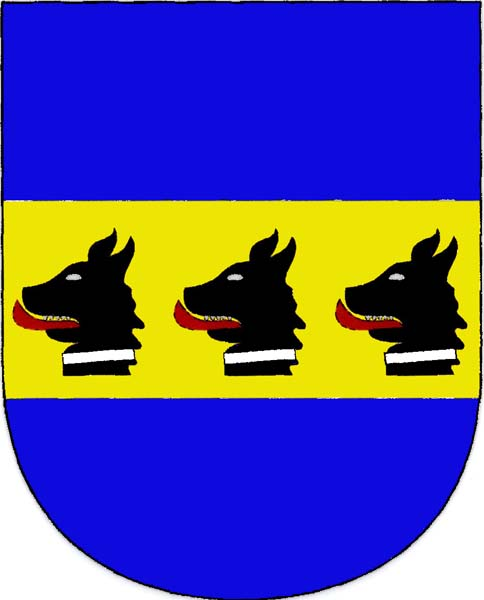 Coat of amrs of Branov , District Rakovník, Czech Republic